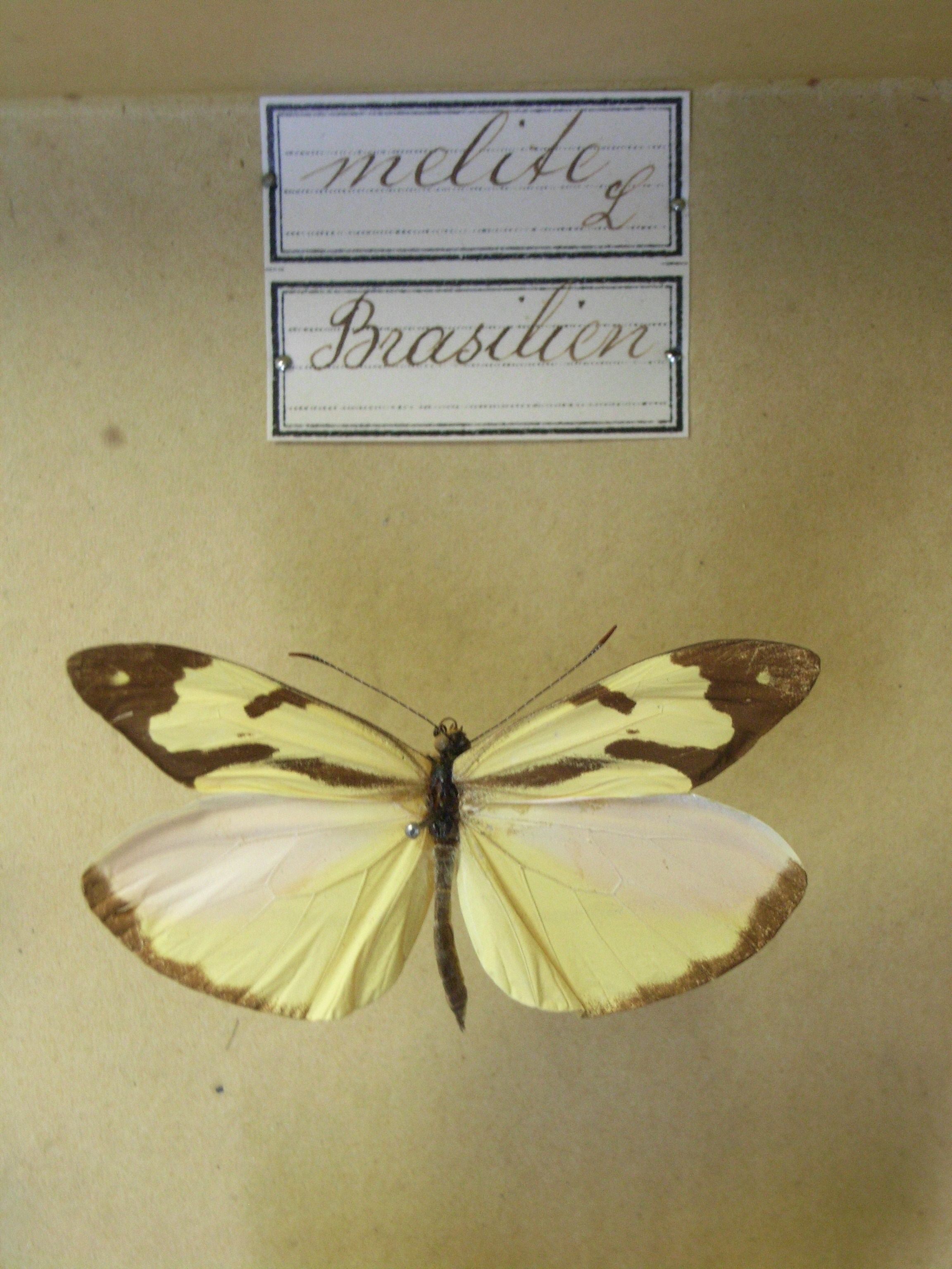 Enantia melite (Linnaeus, 1763) Dismorphiinae Pieridae Ex Coll. Museum Wiesbaden